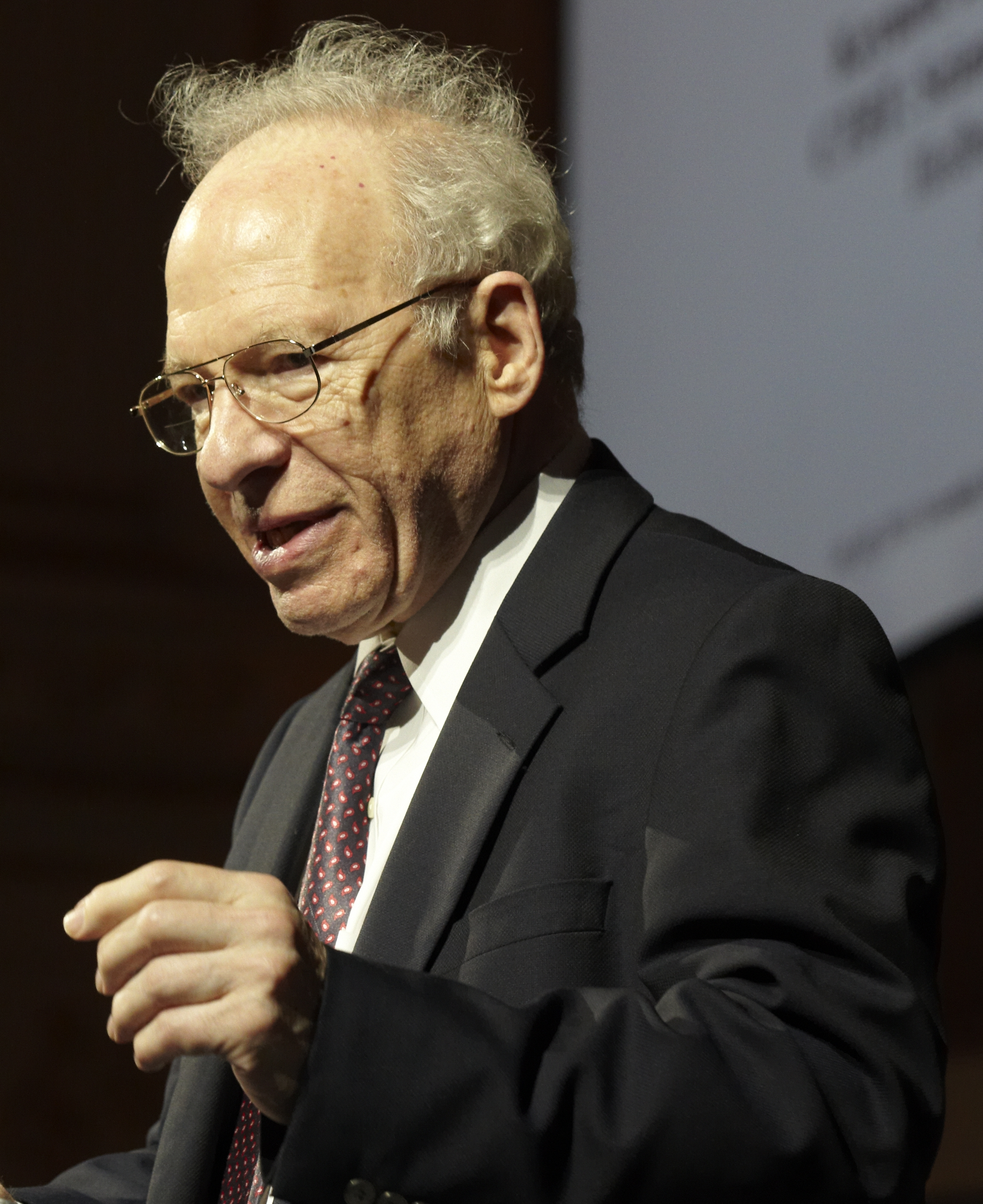 8-10 June 2011 - Vienna In his keynote address, world renowned scientist Richard Garwin outlining some potential technical improvements of the CTBT’s verification system. Copyright CTBTO Preparatory Commission Photographer: Marianne Weiss